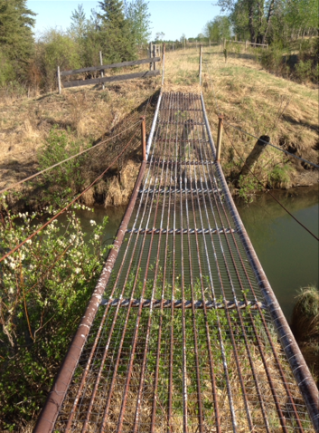 A Suspension bridge over the North Raven River. Picture taken from atop the bridge looking downwards.